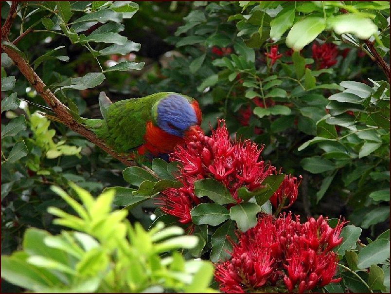 A Rainbow lorikeet enjoying the sweet nectar of a Drunken parrot tree - the common name of this tree in Australia. It is likely a myth about this tree, but at least it proves that parrots do like the flowers! I think this spectacular flowering African tree is also known as the "Weeping boer-bean" in S. Africa. The "weeping" label is due to the dripping nectar, rather than the foliage that "weep" or "droop"! Schotia brachypetala Fabaceae/Caesalpiniaceae Schotia is an easily grown tree, and is remarkably hardy in both poor soil and very dry conditions. Normally it is evergreen, but in dry conditions it could drop the leaves before the flowering season - which is what happened in Brisbane last year, during a very abundant flowering season. Location: Brisbane Botanic Gardens, Mount Coot-tha, Australia